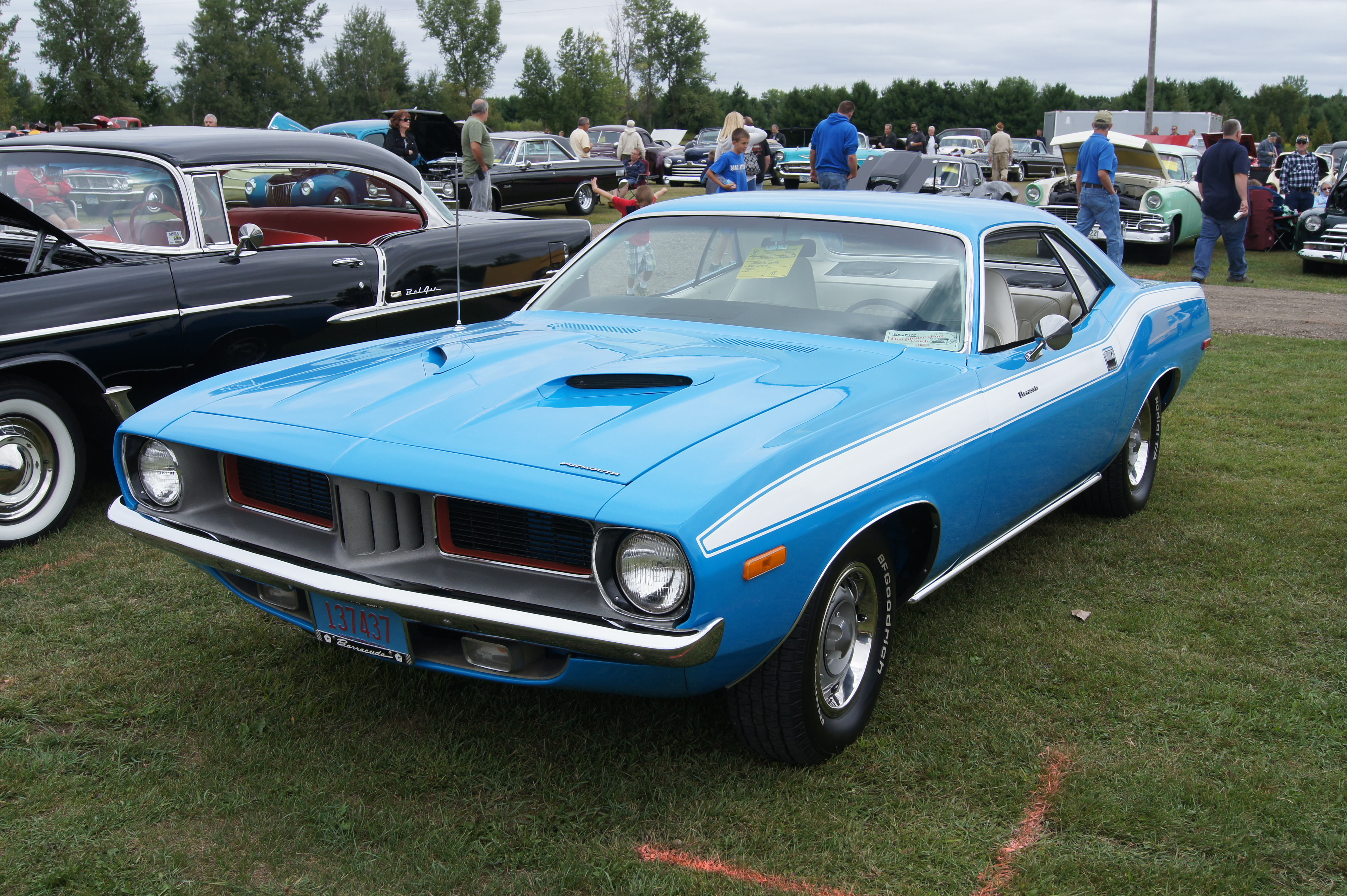 North Star Chapter Studebaker Drivers Club 13th Annual Labor Day Car Show September 2, 2013 Blacksmith Lounge Hugo, MN More Car Pictures